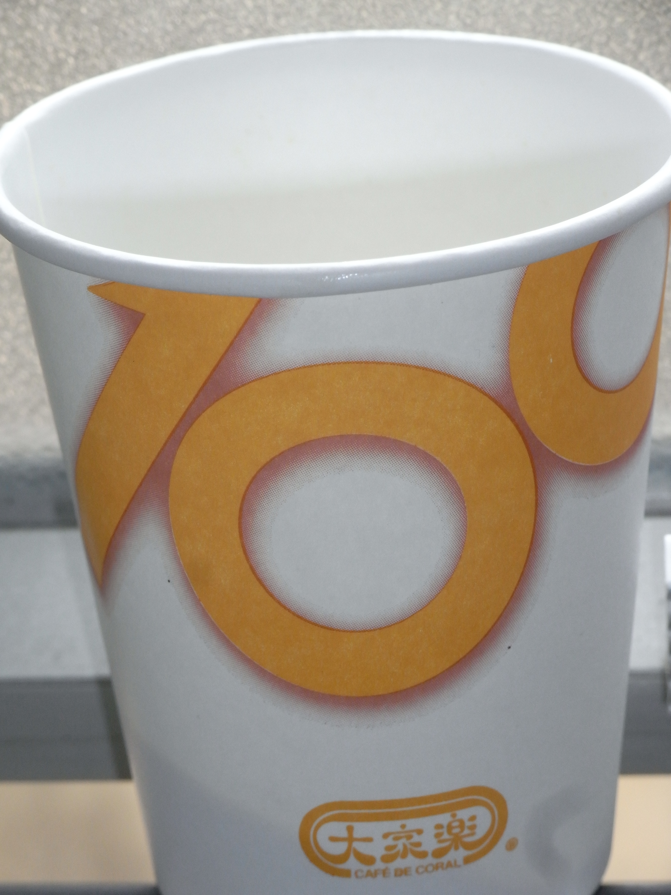 香港大家樂飲品 - 好立克